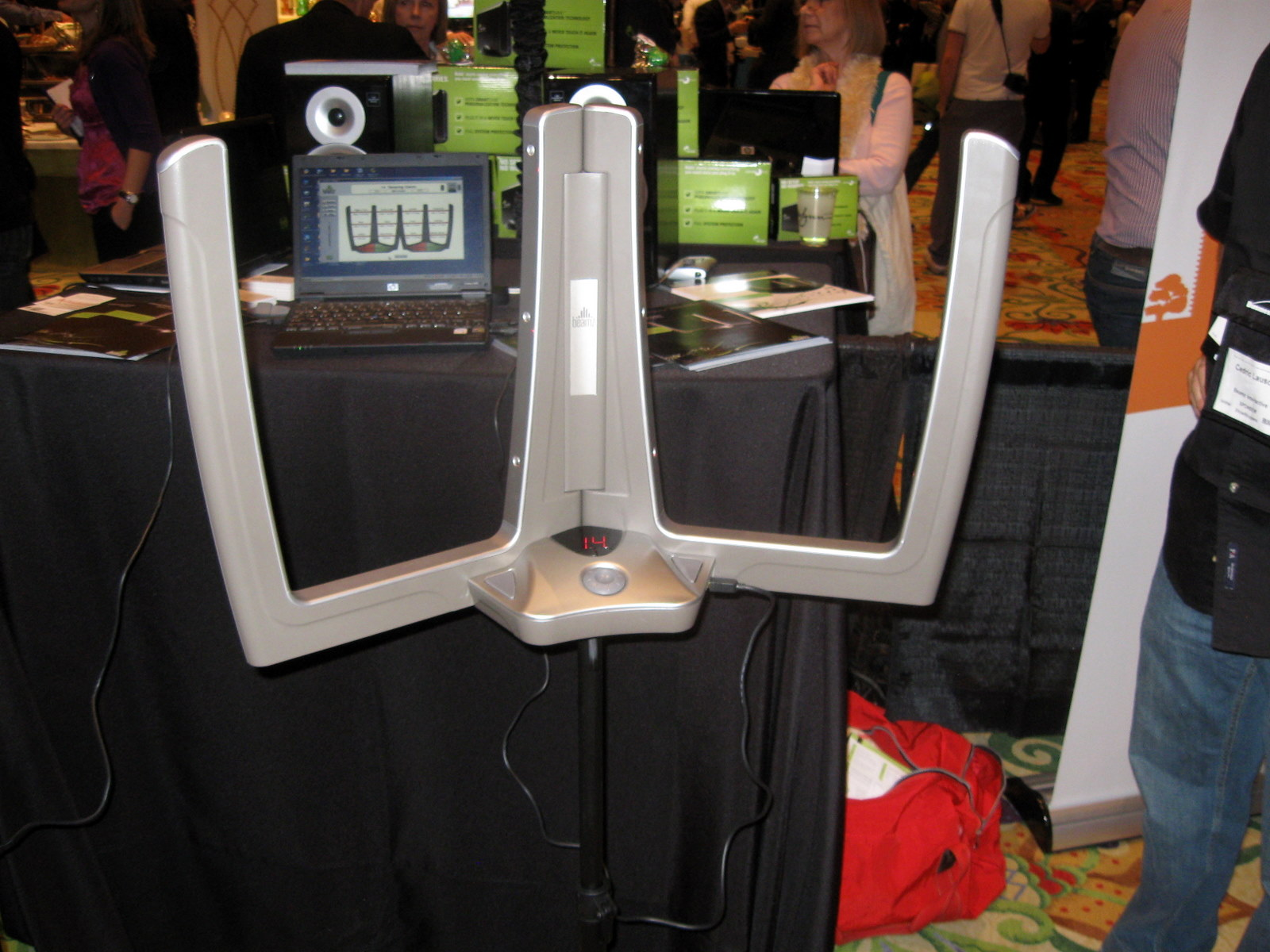 The Consumer Electronics Show (CES) in Las Vegas Nevada in January 2010 (cc) David Berkowitz